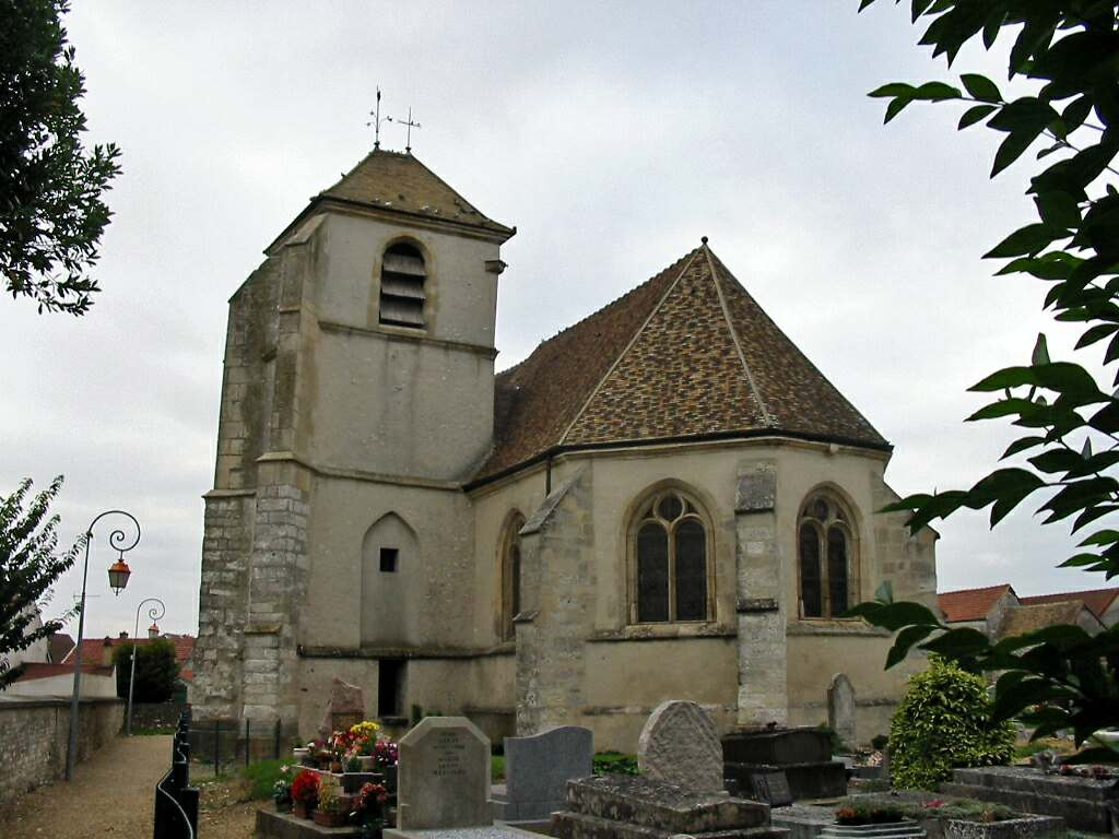 Church of Soindres (Yvelines, France)